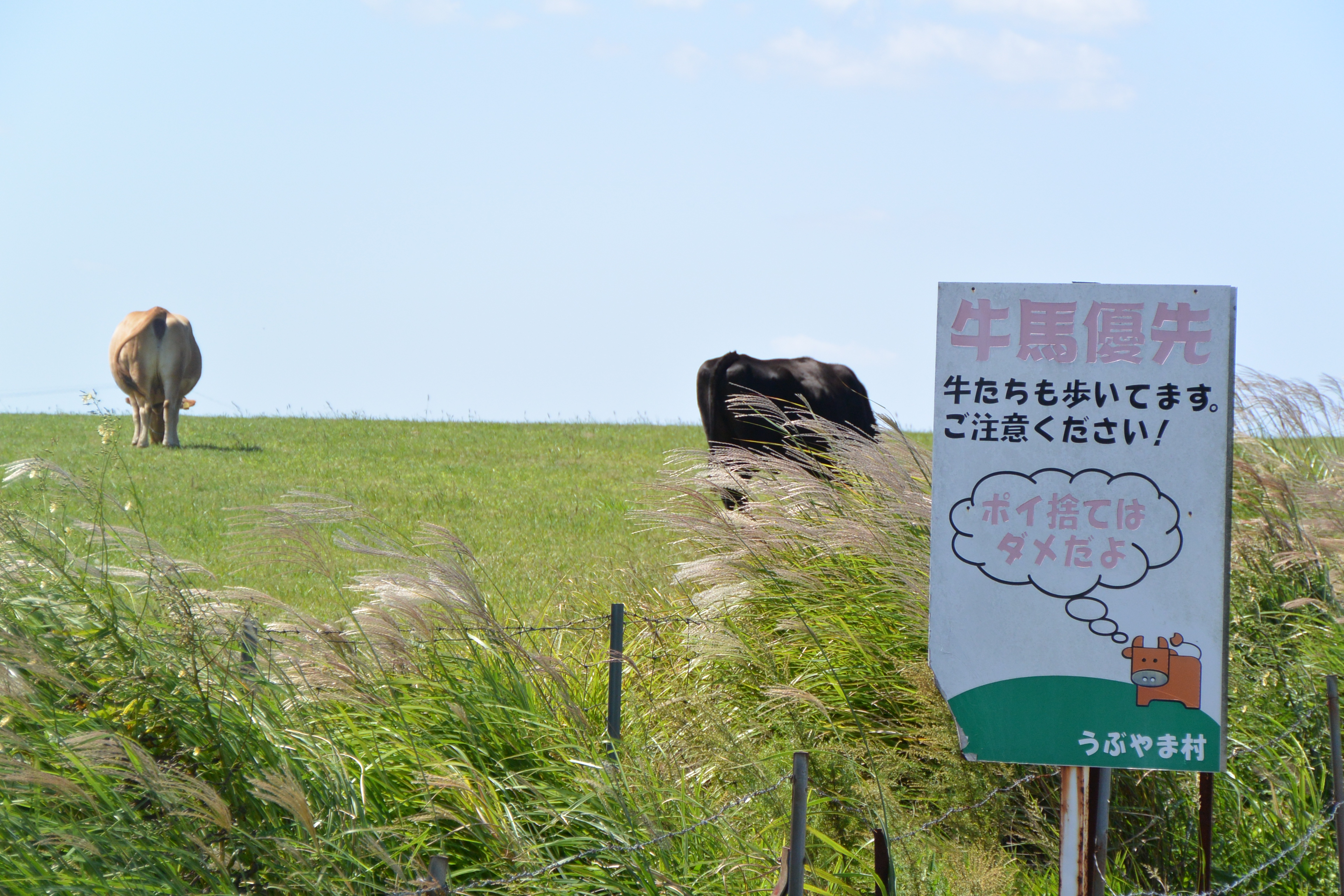 Pasture in Ubuyama Village, Kumamoto Prefecture, Japan. Sign says: Cows and horses first: there are cows on the road too, so watch out for them. No litter please